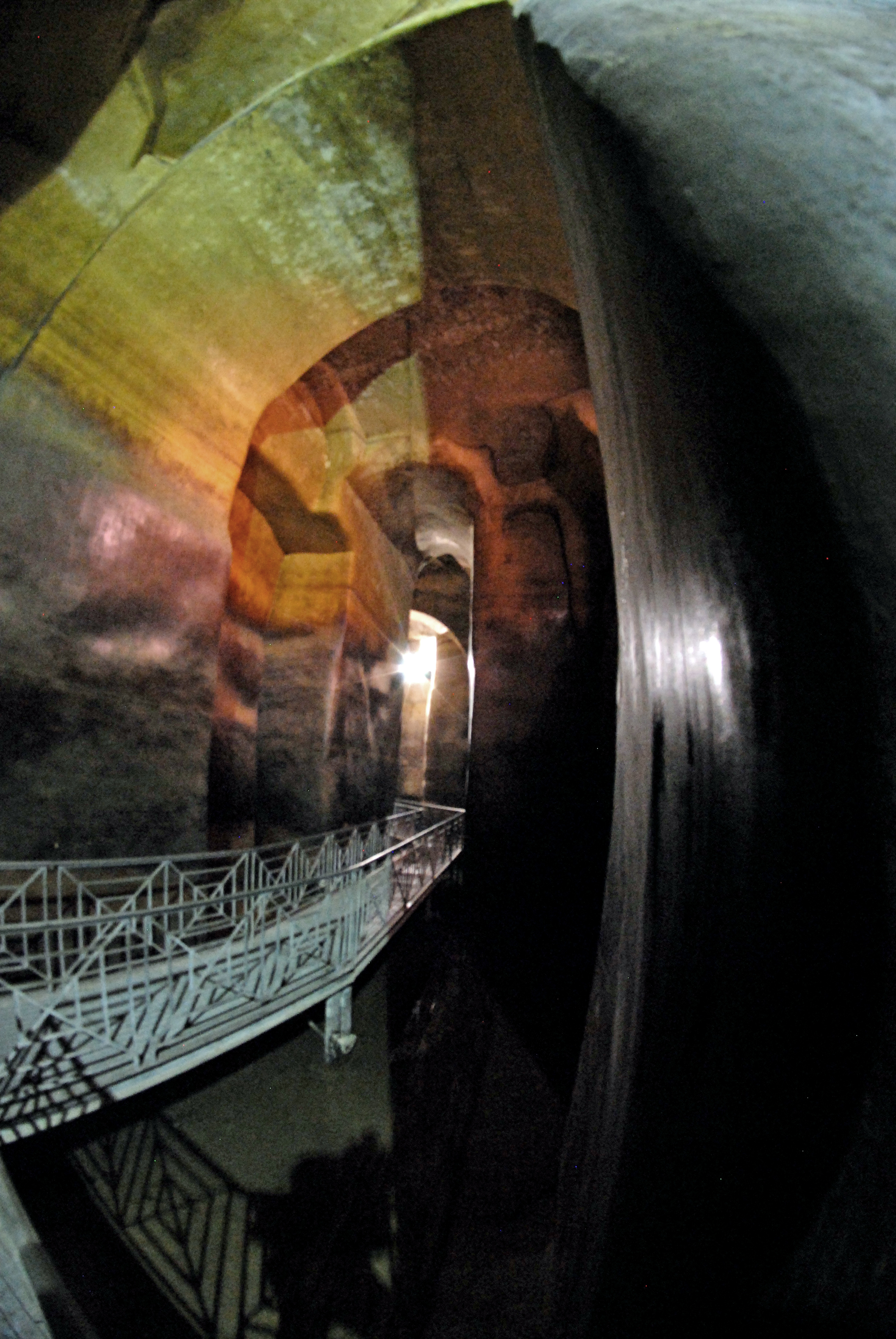 Inner side of the Palombaro Lungo, in Matera, a huge water system dug cistern.